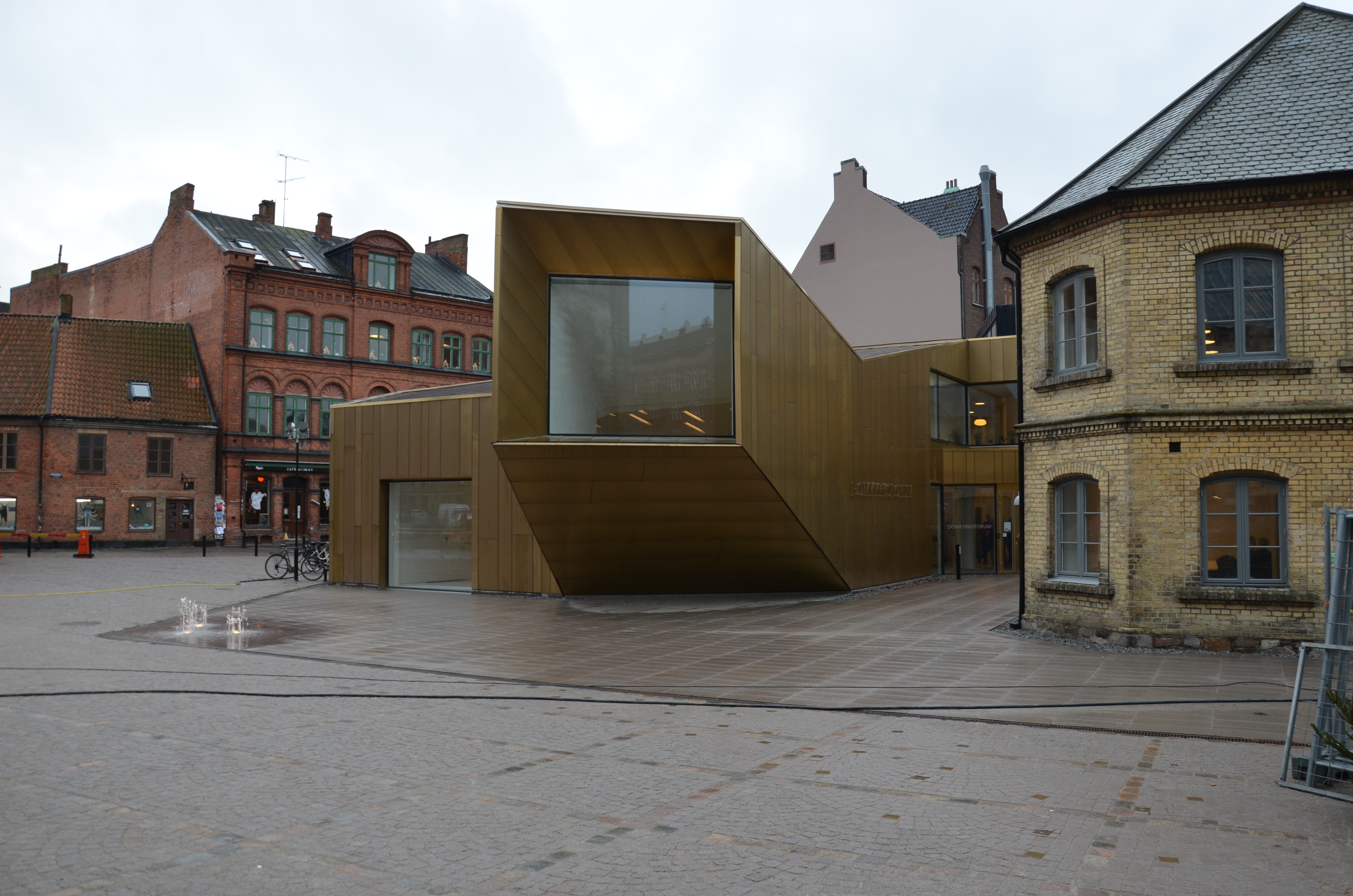 The Visitors' Centre of the Cathedral of Lund, Sweden